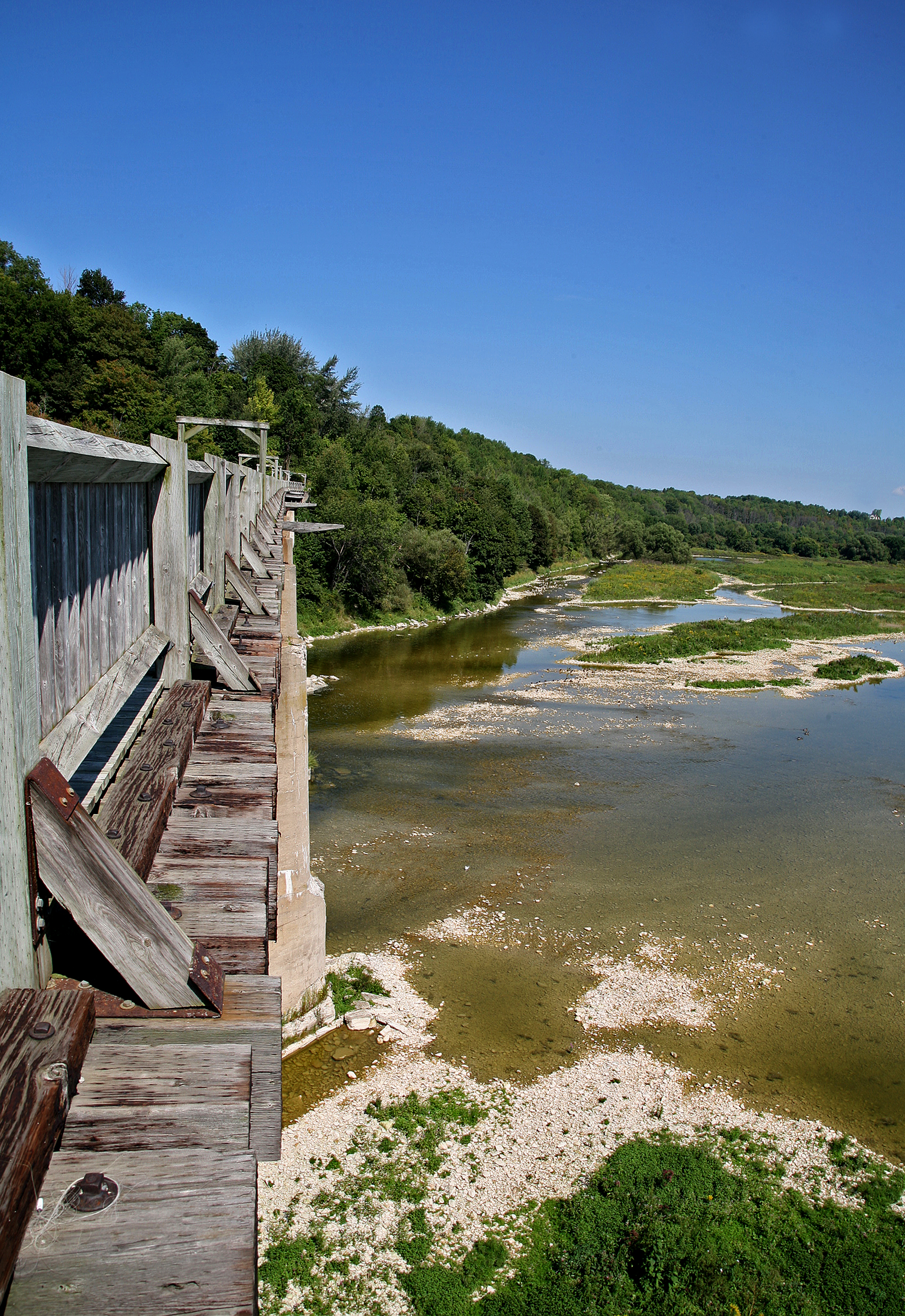 Located within the harbour area of the Town of Goderich, the Menesetung Bridge is a visual reminder of the important role of Lake Huron and the railway to the development of Goderich. The harbour and the train station, located to the south of the bridge, were the industrial and commercial hub of early Goderich and greatly contributed to the success of the town.